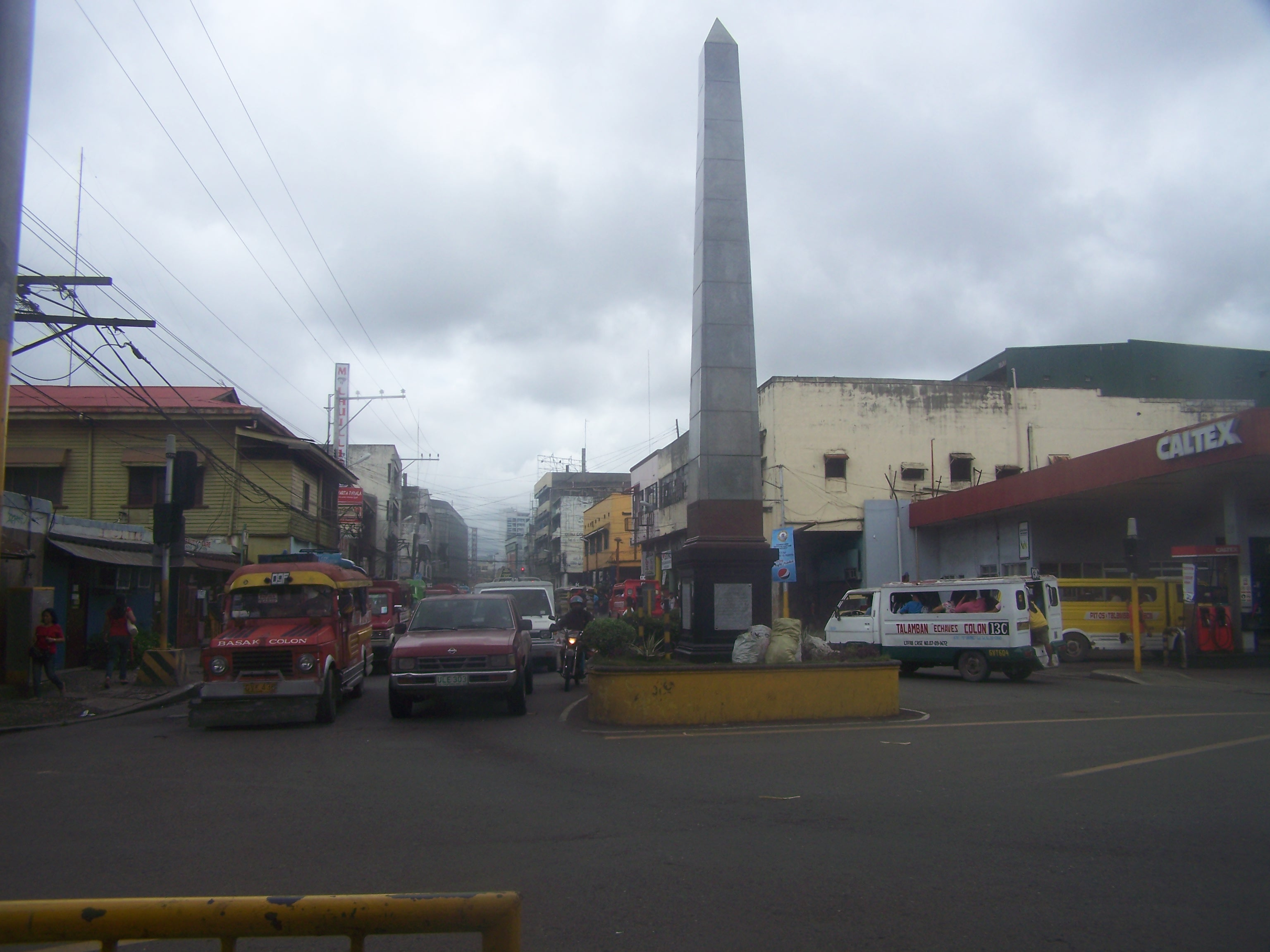 Colon Street in Cebu City, Philippines.